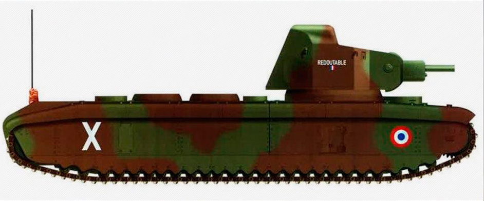 ARL Tracteur C artwork